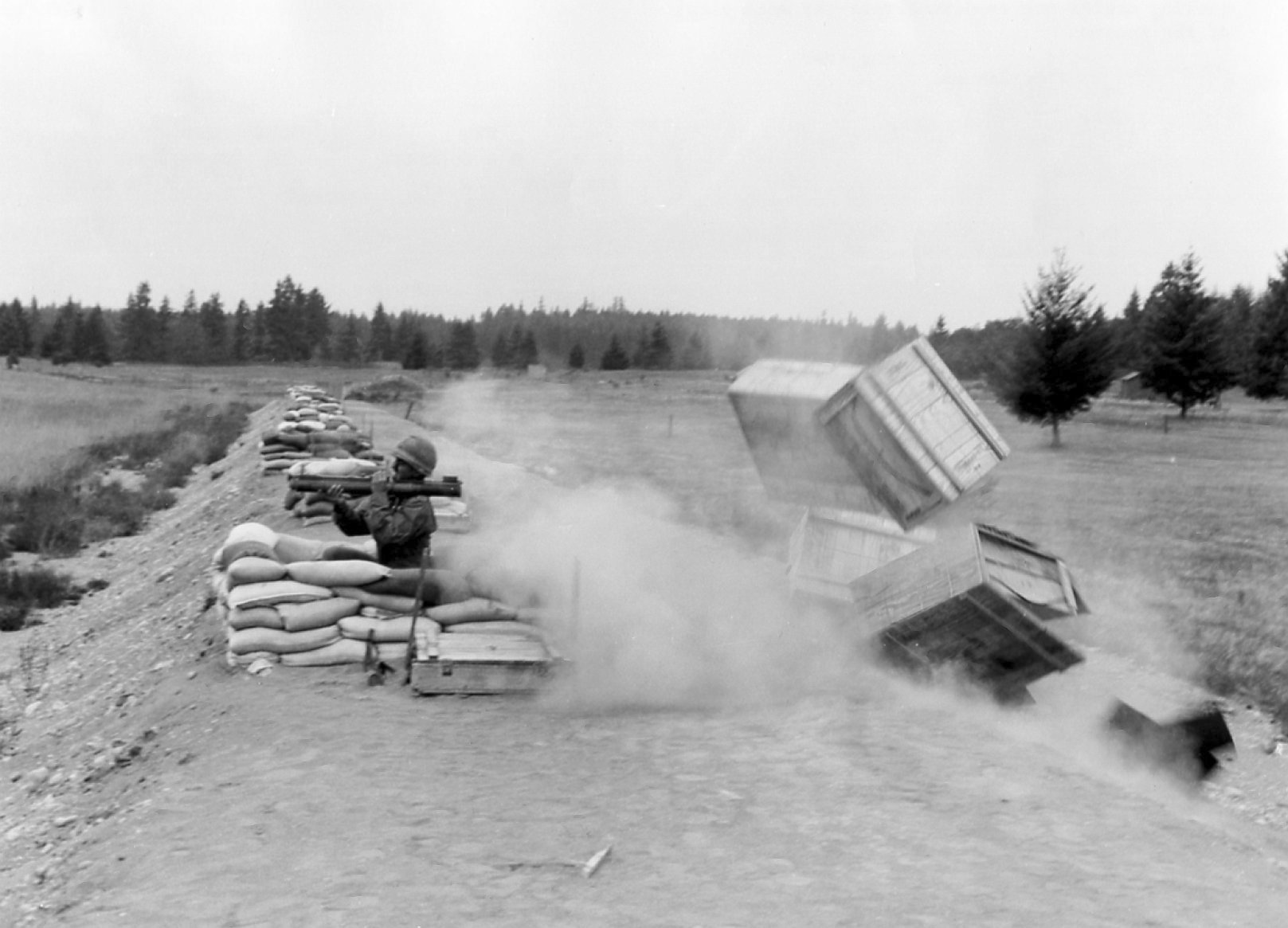 Pvt Barry Hill (Chicago, ILL) fires the Light Anti tank Weapon during AIT training. The packing crates are to demonstrate the back blast of the weapon (FORT LEWIS, WASH.)